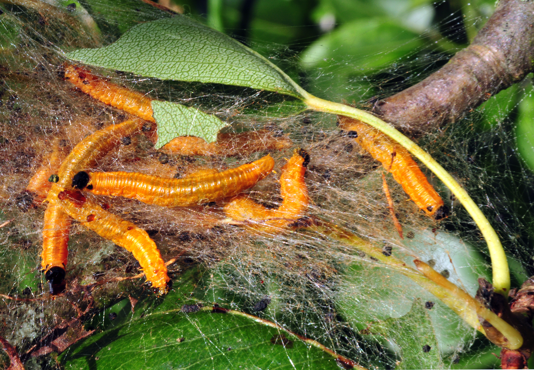 Larvae of Neurotoma flaviventris (Retzius, 1783) in their web. The larvae feed on pear trees, using silk to build webs, in which they feed, thus earning them the common names leaf-rolling sawflies or web-spinning sawflies.